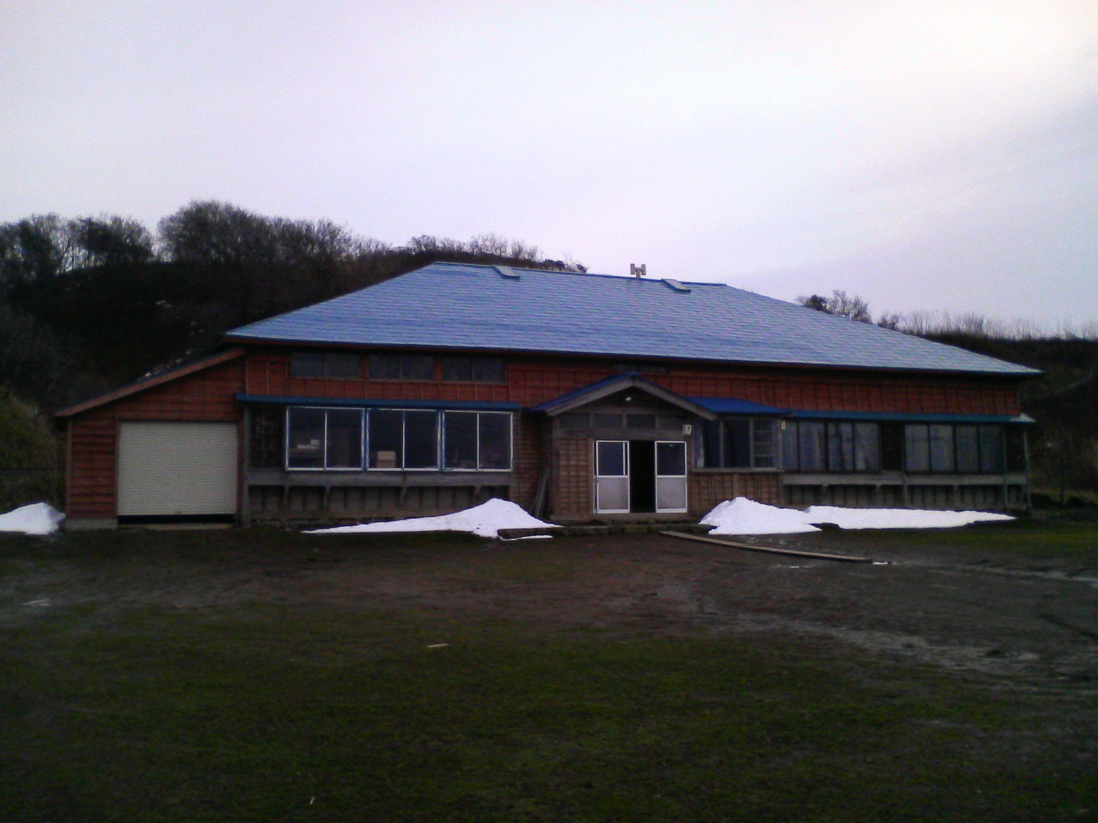 dormitory of a fisherman of a herring (nishin banya)